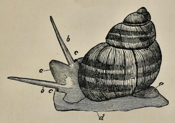 Drawing of the animal and shell of the common British river snail Viviparus viviparus Linneaus, 1758.